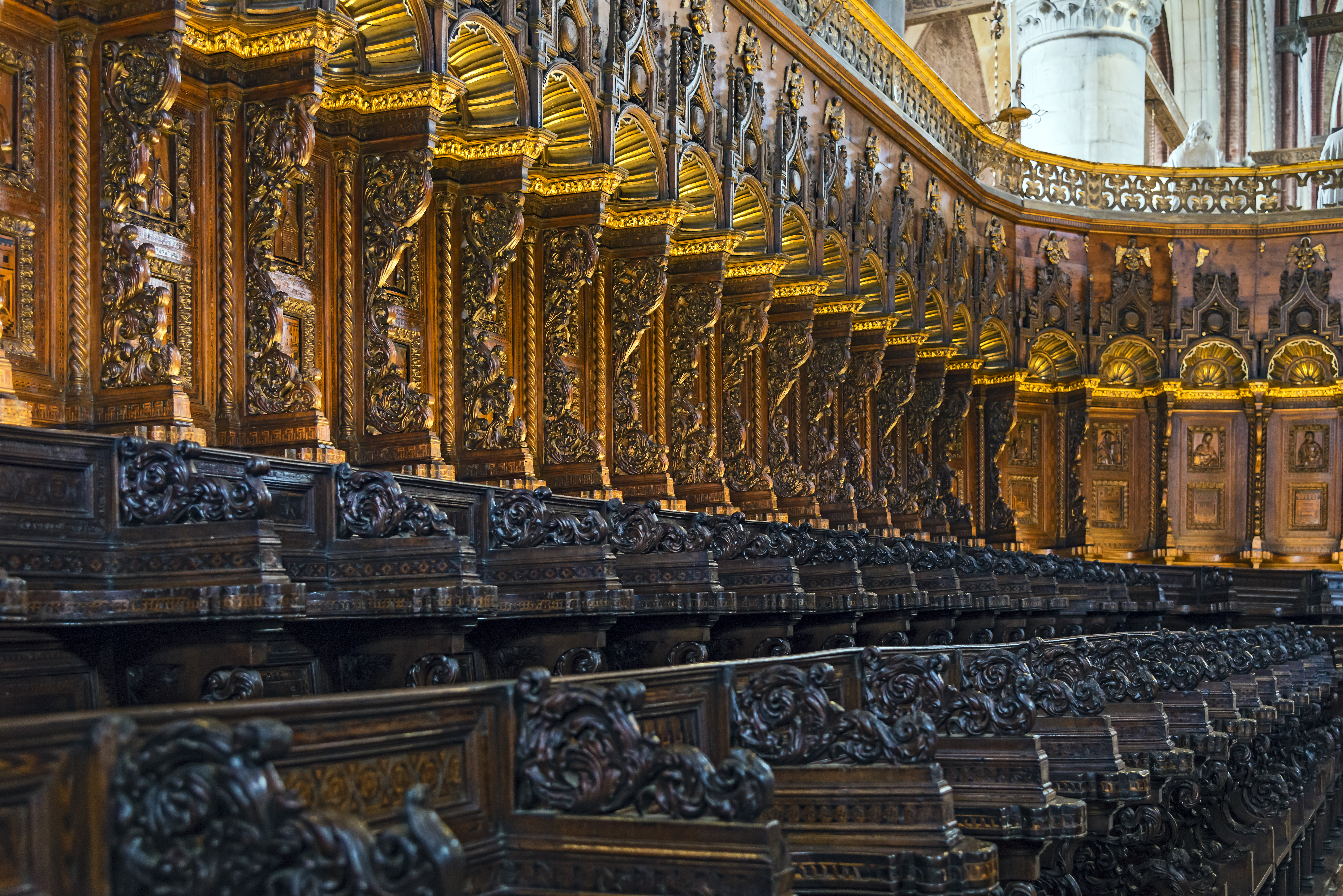 The Basilica di Santa Maria Gloriosa dei Frari. The stalls of the choir of the friars by Marco Cozzi.